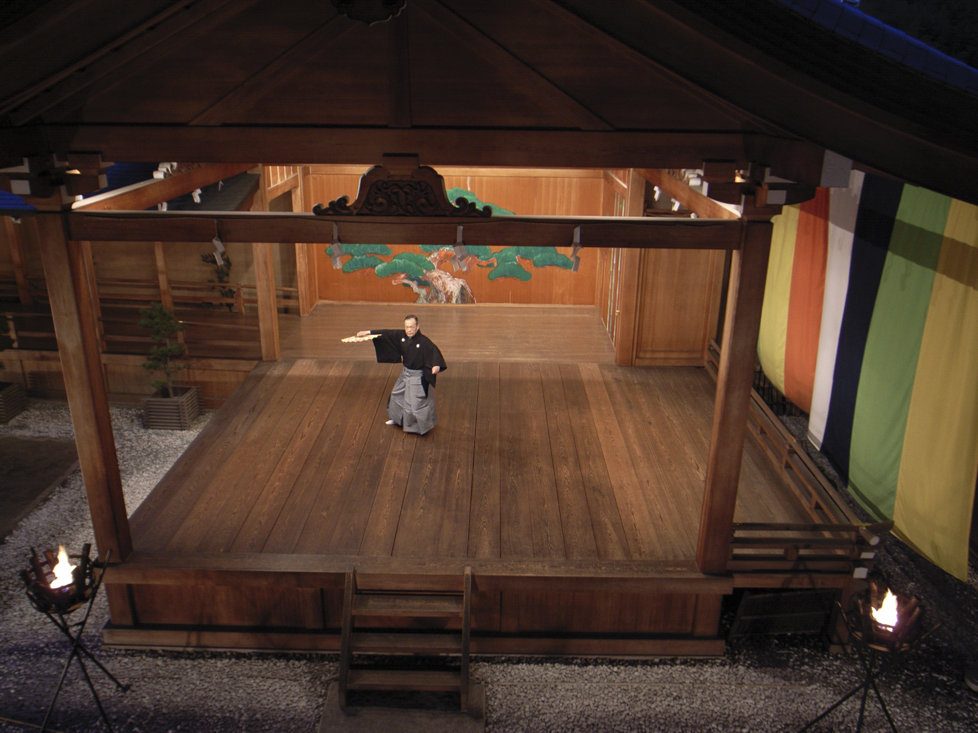 The demonstration of Mai-bayashi/Shimai at Dōgō Noh Stage in Dōgo Onsen, Matsuyama, Japan. It should be known, however, that the use of recordings in Noh contradicts the spirit of Noh.